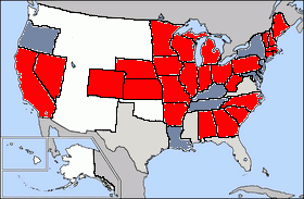 Elections 1968 results by state USA